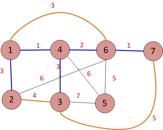 step 7 for debug Kruskal